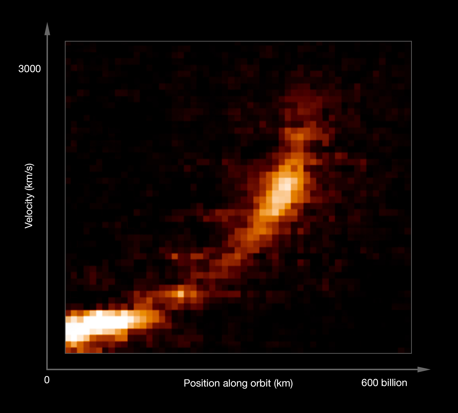 New observations from ESO's Very Large Telescope show how a gas cloud now passing close to the supermassive black hole at the centre of the galaxy is being ripped apart. The horizontal axis shows the extent of the cloud along its orbit and the vertical axis shows the velocities of different parts of the cloud. The cloud is now dramatically stretched out and the velocity of the front is several million km/h different from that of the tail.